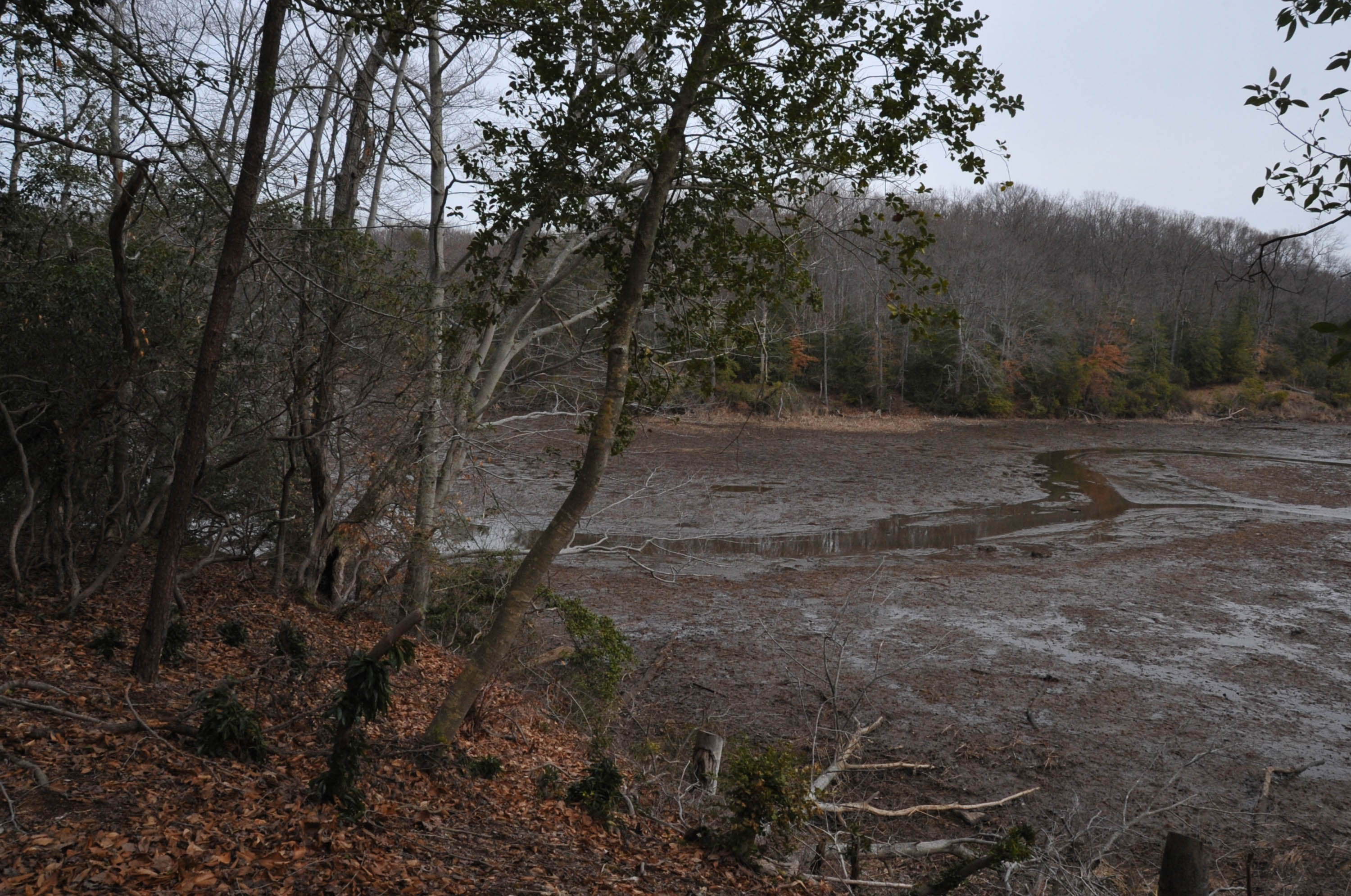 LOCATED ON A DISSECTED, COASTAL PLAIN PLATEAU "FINGER” ON THE SOUTH SIDE OF THE CONFLUENCE OF THE TIDAL KANES CREEK ESTUARY AND BELMONT BAY ON MASON NECK WHICH IS PART OF MASON NECK STATE PARK. THE ARTEFACTS EXCAVATED DATE TO CIRCA 2000 B.C. THERE IS NOTHING TO BE SEEN AT THE SITE EXCEPT WOODS AND THE FINGER FROM THE CREEK